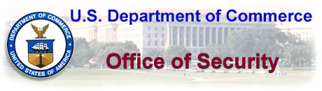 US DOC Office of Security banner from website.